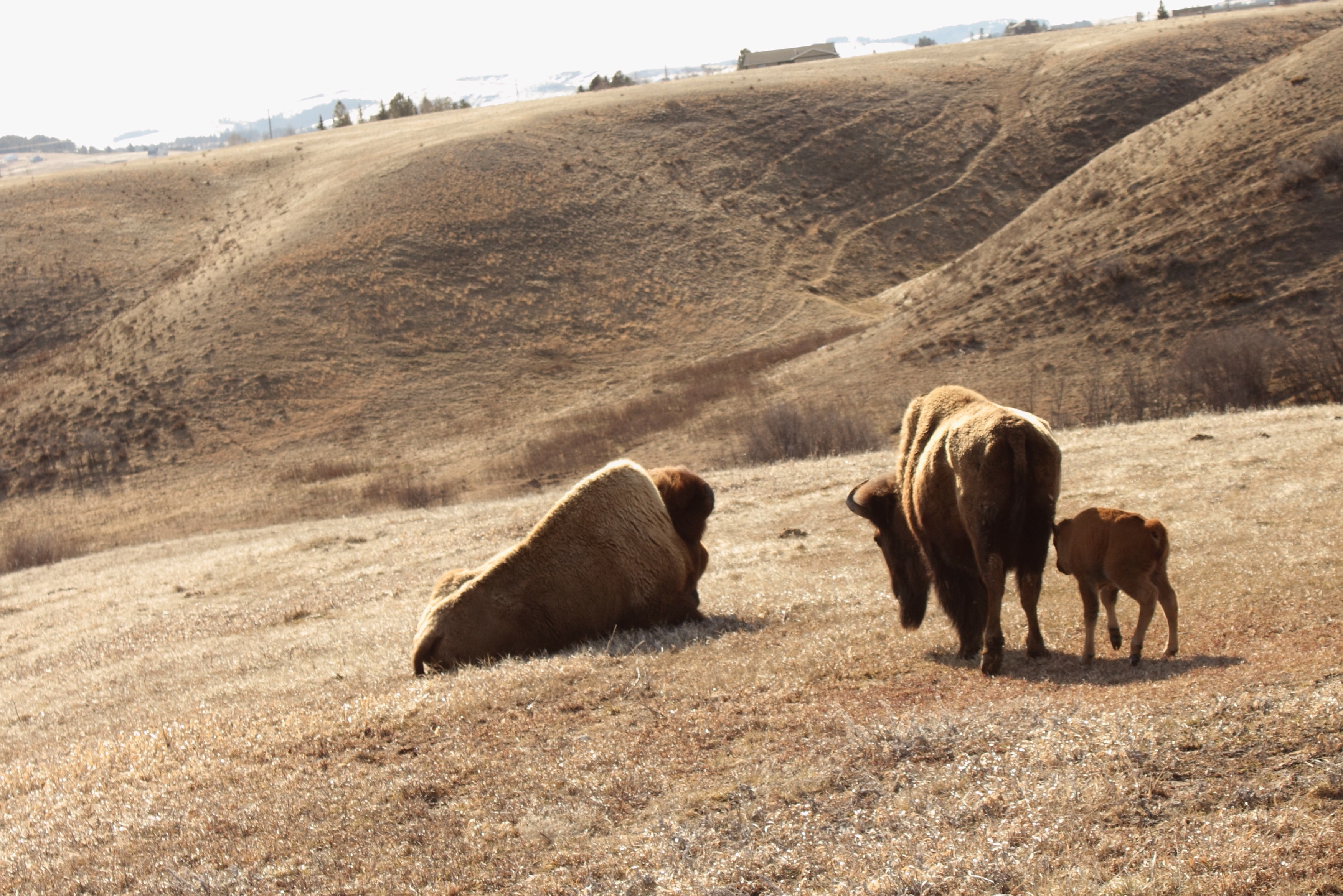 A family of bison in the Charles M. Russell National Wildlife Refuge in Montana in the United States. The calf was born Thursday, April 7, 2011 and is 4 days old.